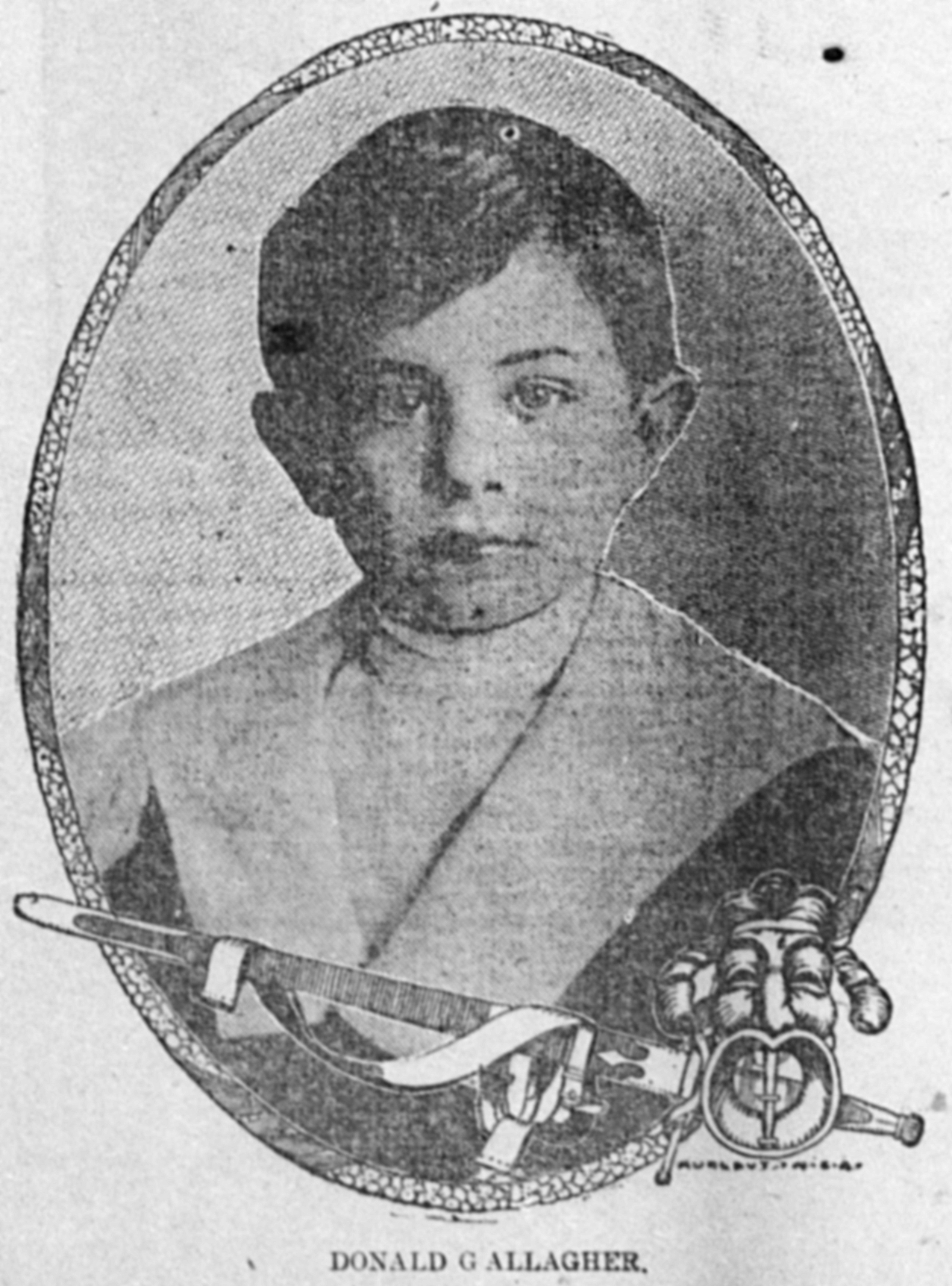 in 1904, Donald Gallaher was a child actor; later in life, he produced Broadway plays and directed films. Note that his name here is misspelled as "Gallagher".